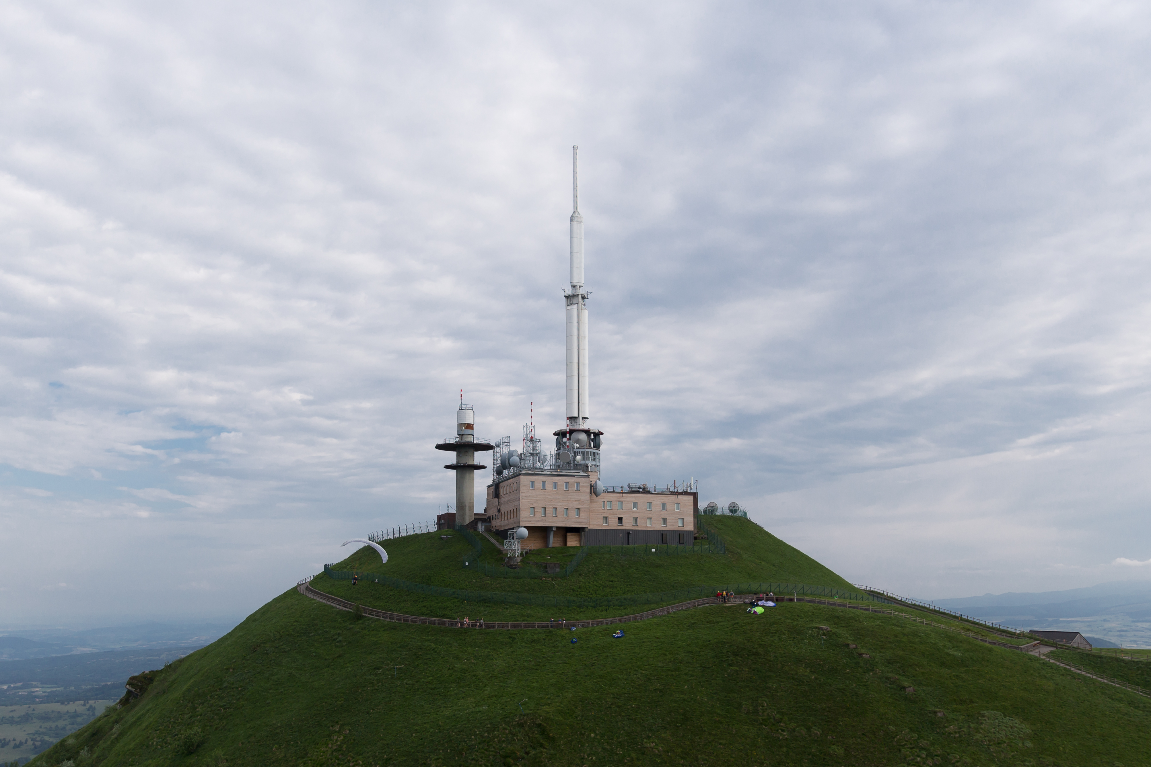 Aerial view from a paragliding on the east side of the pylon TDF of the puy de Dôme, France.